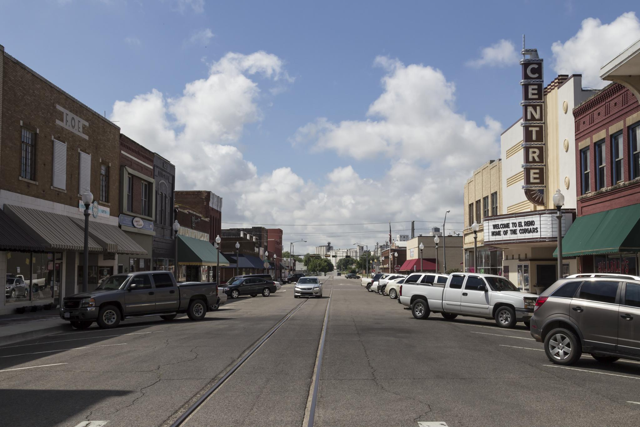 Downtown El Reno Oklahoma on 5-31-2014. This is looking south on S. Bickford Avenue between E. Woodson Street and Sunset Drive/Russell Street. The track in the street is used by the Heritage Express Trolley, a tourist service that began operating in 2001.